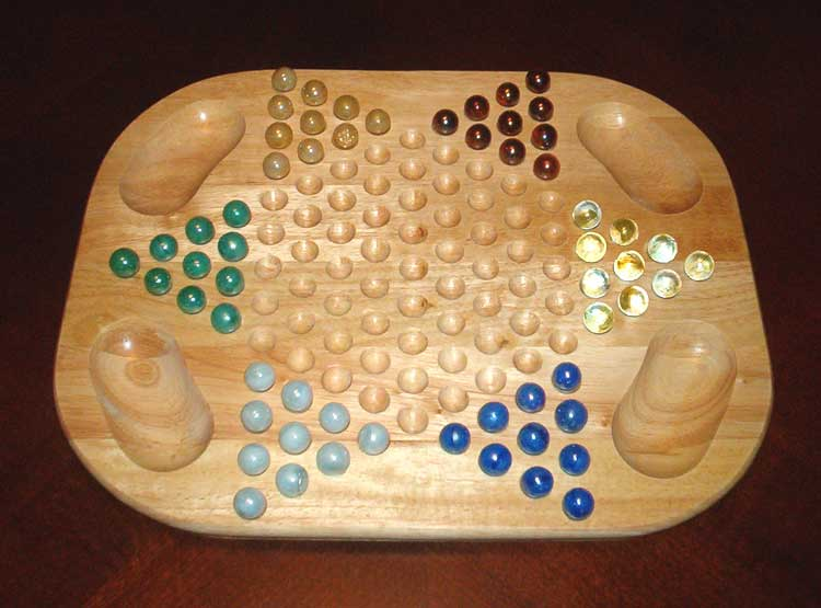 Chinese Checkers board (photo by User:Hephaestos 3/7/2004 GFDL)